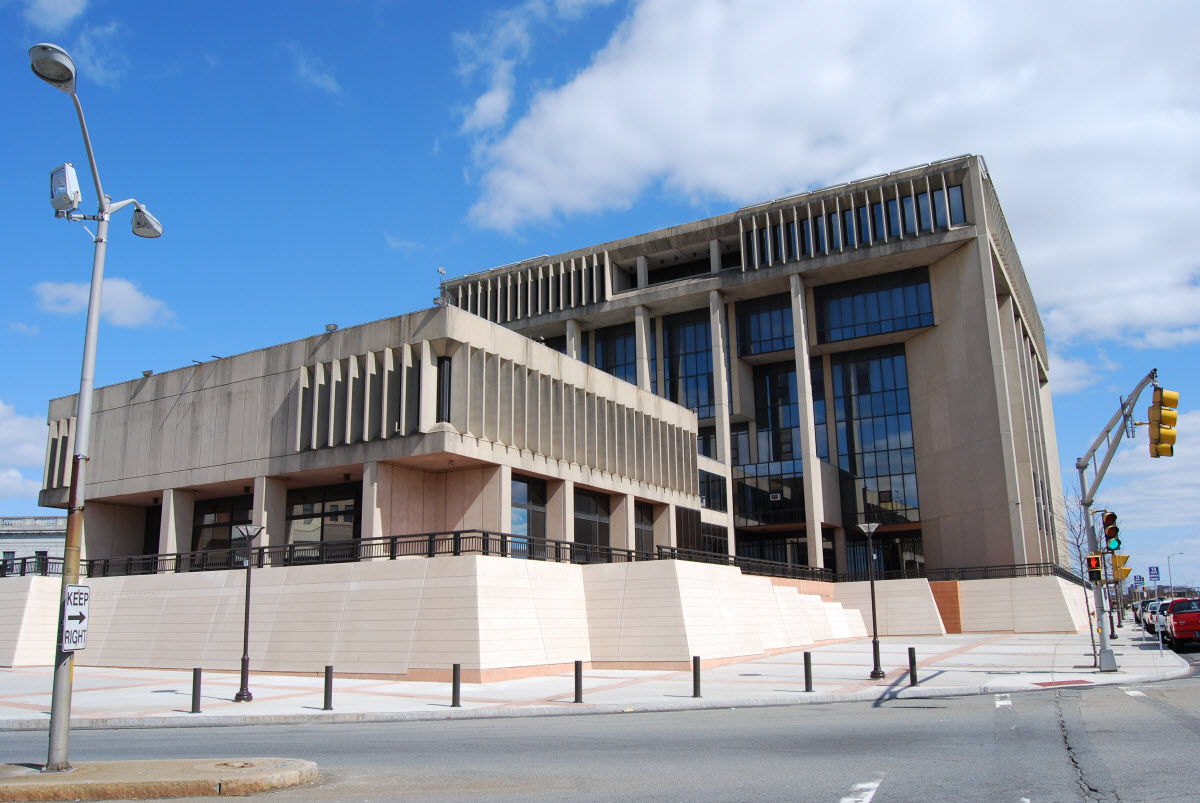 Government Center (City Hall), Fall River Massachusetts. Southeast view.